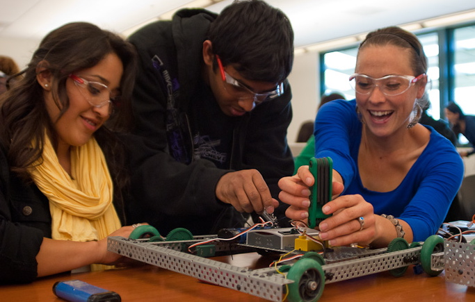 The Robotics Club at Cañada College is popular with science and math majors.